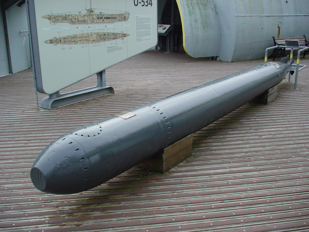 T11 Zaunkonig 2 Torpedo at the U-Boat Story exhibition, Birkenhead.